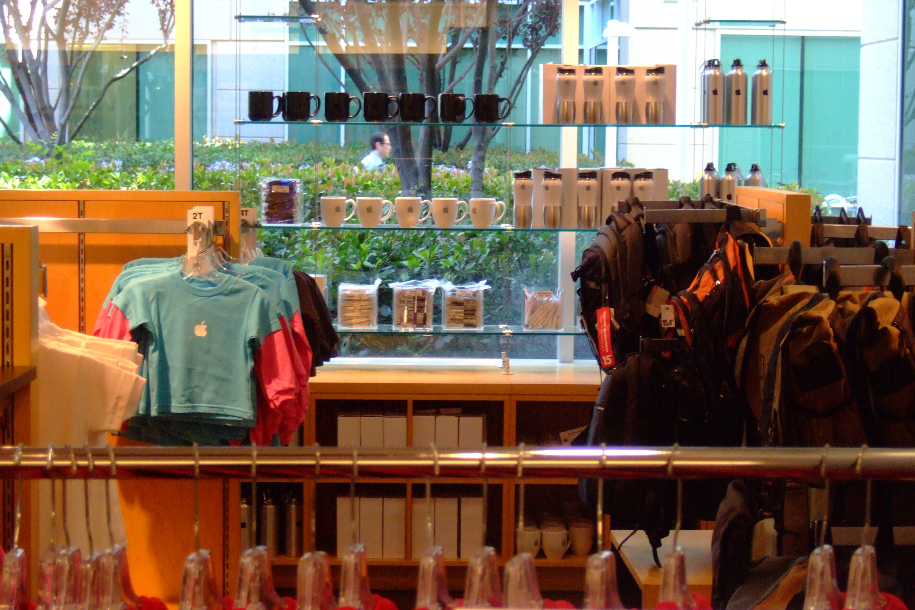 Apple operates on its campus a little-known Apple store frequented by employees, which sells Apple memorabilia not available elsewhere. This interior view shows Apple-branded shirts. The photographer reports buying a a t-shirt saying "I Visited The Mothership".